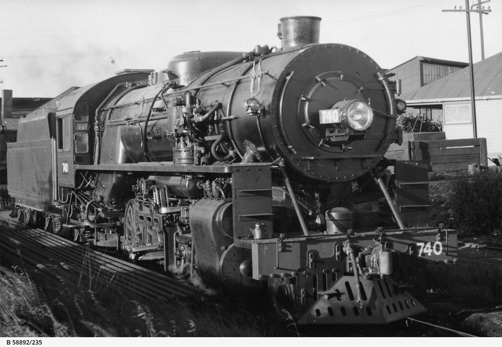 Engine No. 740 at Mile End, 1 March 1952. State Library of South Australia - B 58892/235.